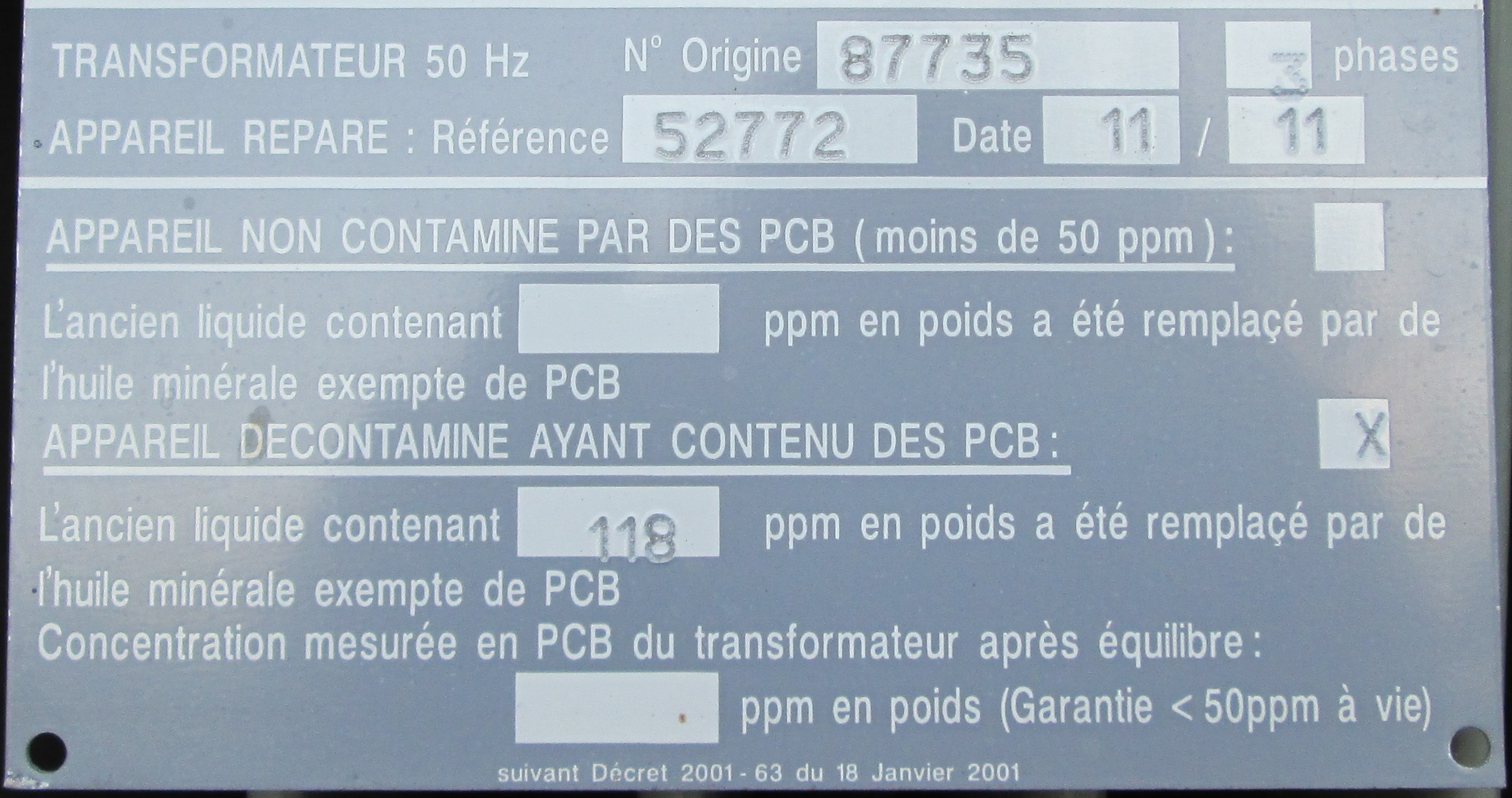 Manufacturing tablet on a power transformer. Unit decontaminated, originally filled with polychlorinated biphenyl (PCB). Refilled with mineral oil.